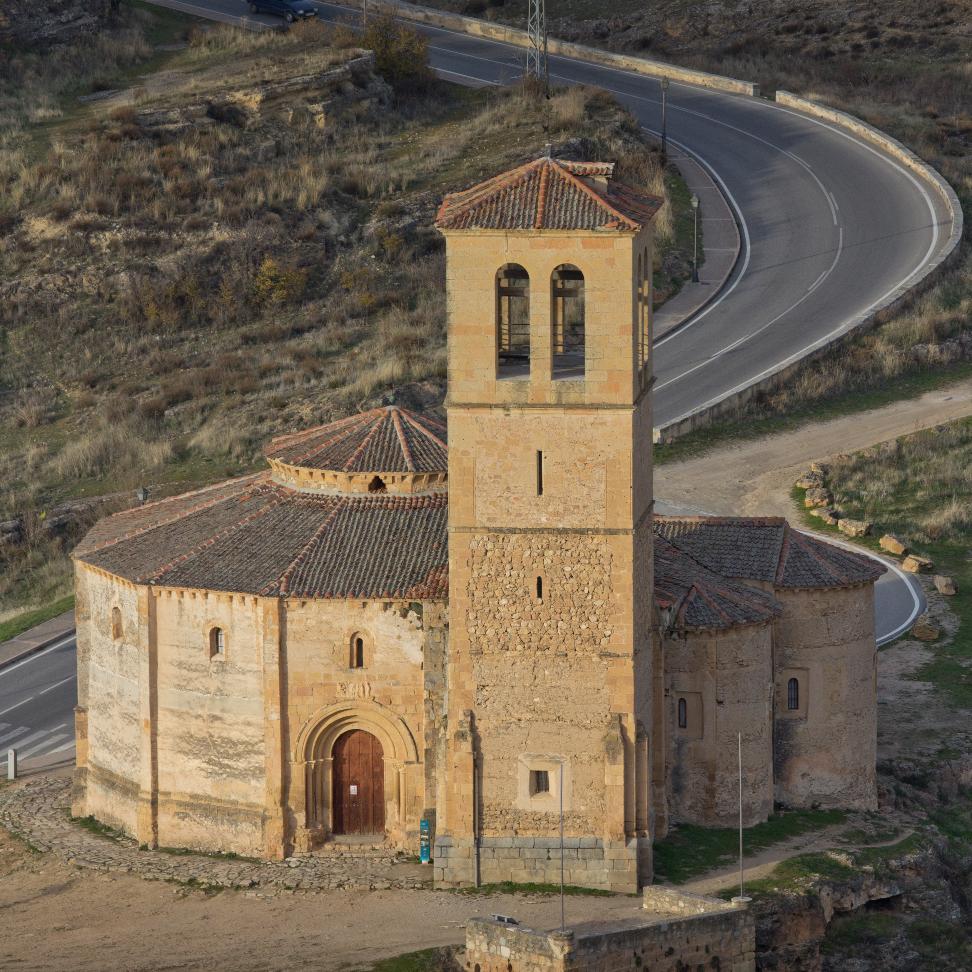 Church of the True Cross, Segovia, Spain.